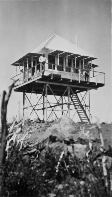 Mary and Arthur Stone are standing on the deck of the Chew's Ridge Lookout Station at 5,040 feet elevation in 1929.